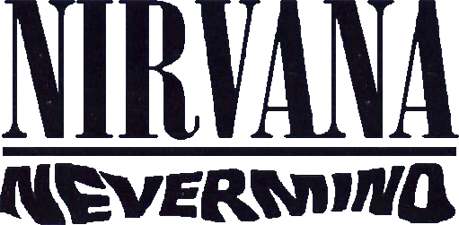 The logotype for the album "Nevermind" by Nirvana